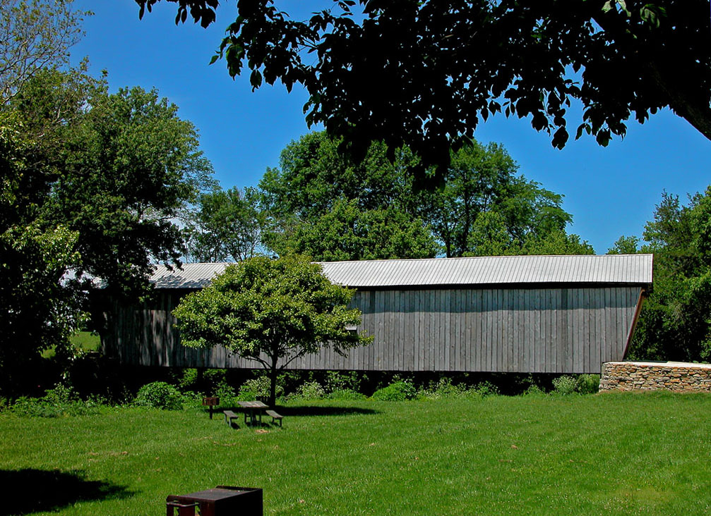 Side of the Lynchburg Covered Bridge, which spans the Little Miami River on the border between Clinton and Highland counties in the southeastern part of the U.S. state of Ohio. Built in 1870, the bridge is listed on the National Register of Historic Places.